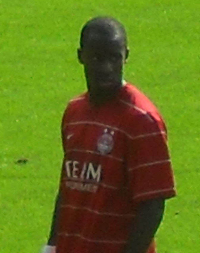 Sone Aluko